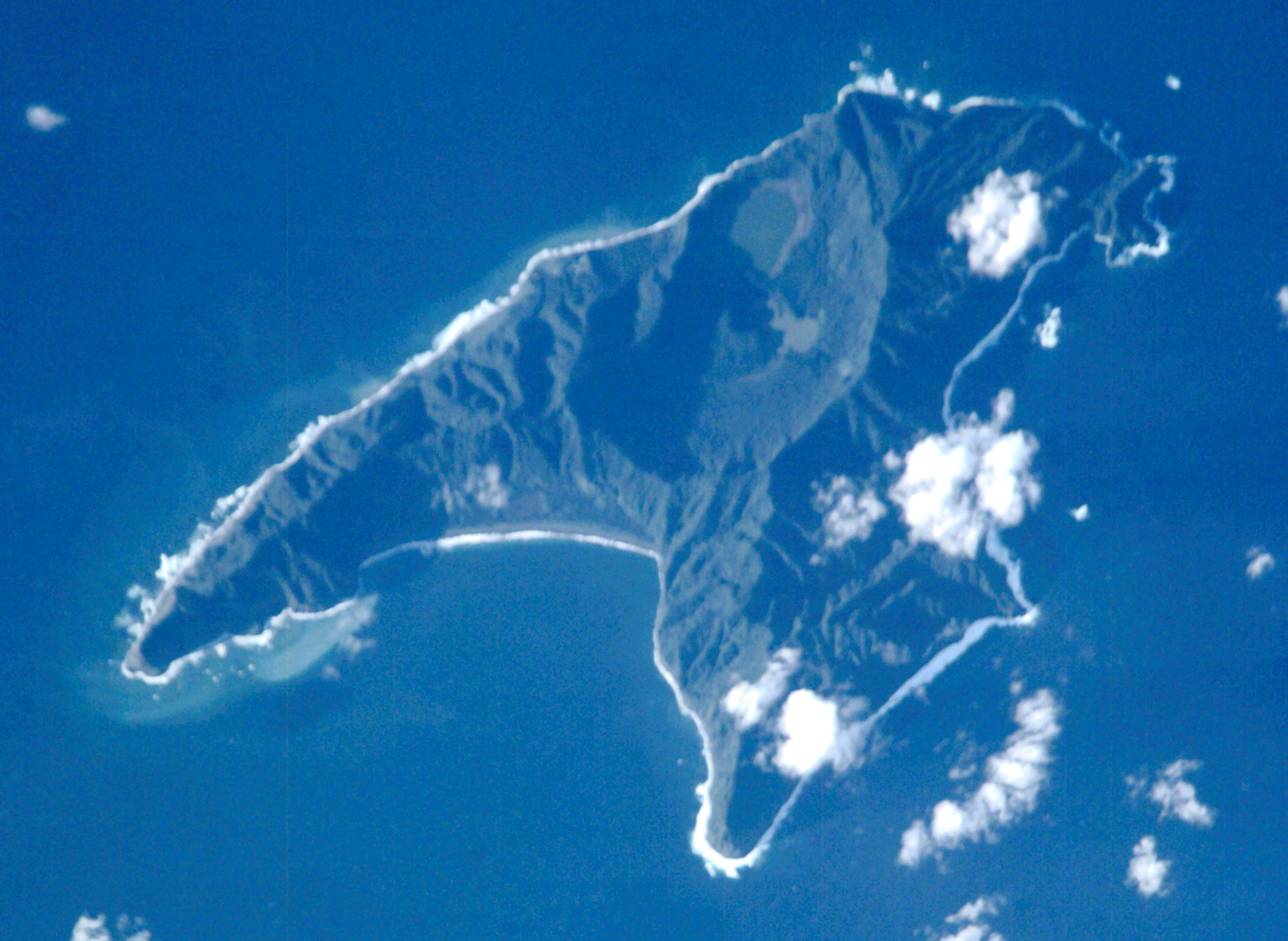 Raoul Island in the Kermadec Islands as seen from the International Space Station